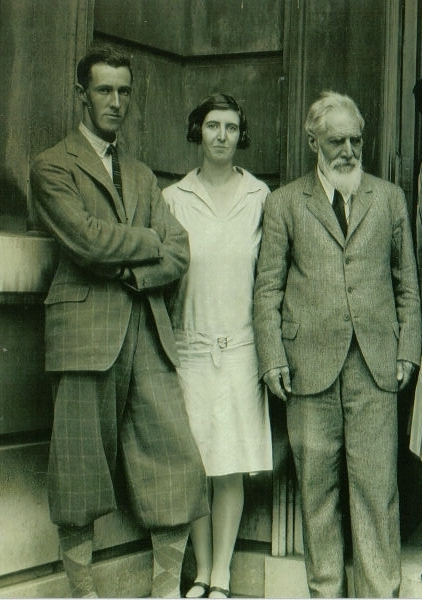 From left: G.L. Harding, Olga Tufnell, Sir Flinders Petrie.